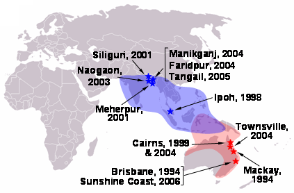 Created by User:Rhys from public domain Wikimedia Commons source